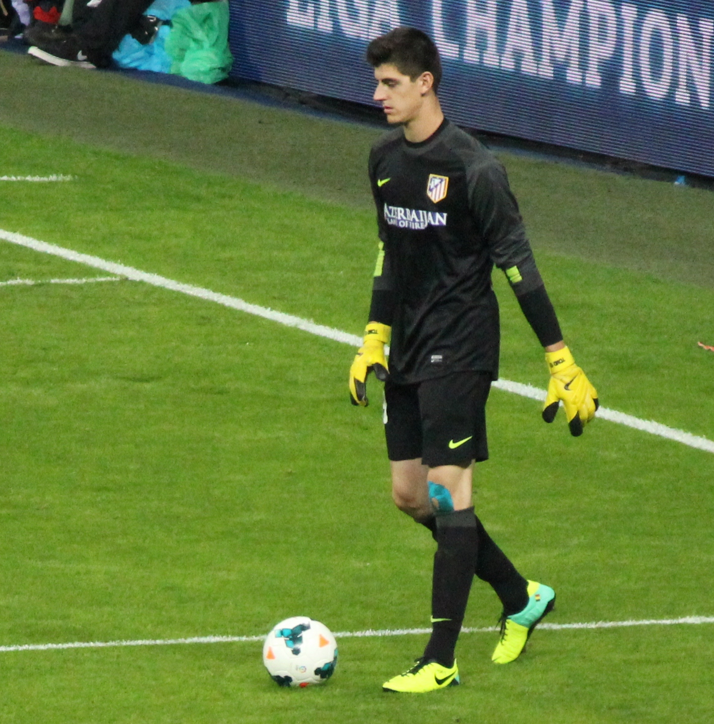 Thibaut Courtois at Real Madrid vs. Atlético Madrid 28 September 2013